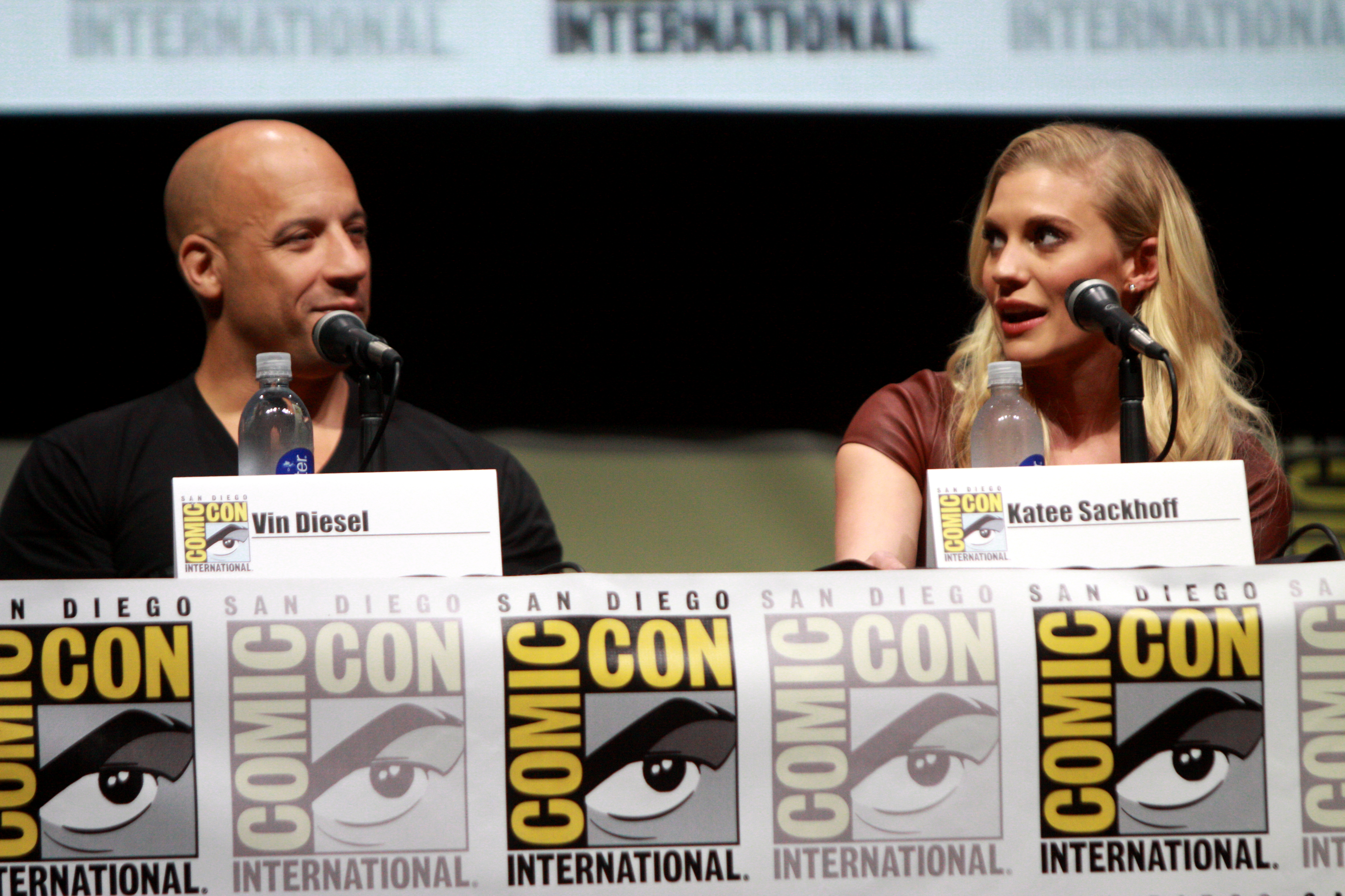 Vin Diesel and Katee Sackhoff speaking at the 2013 San Diego Comic Con International, for "Riddick", at the San Diego Convention Center in San Diego, California.